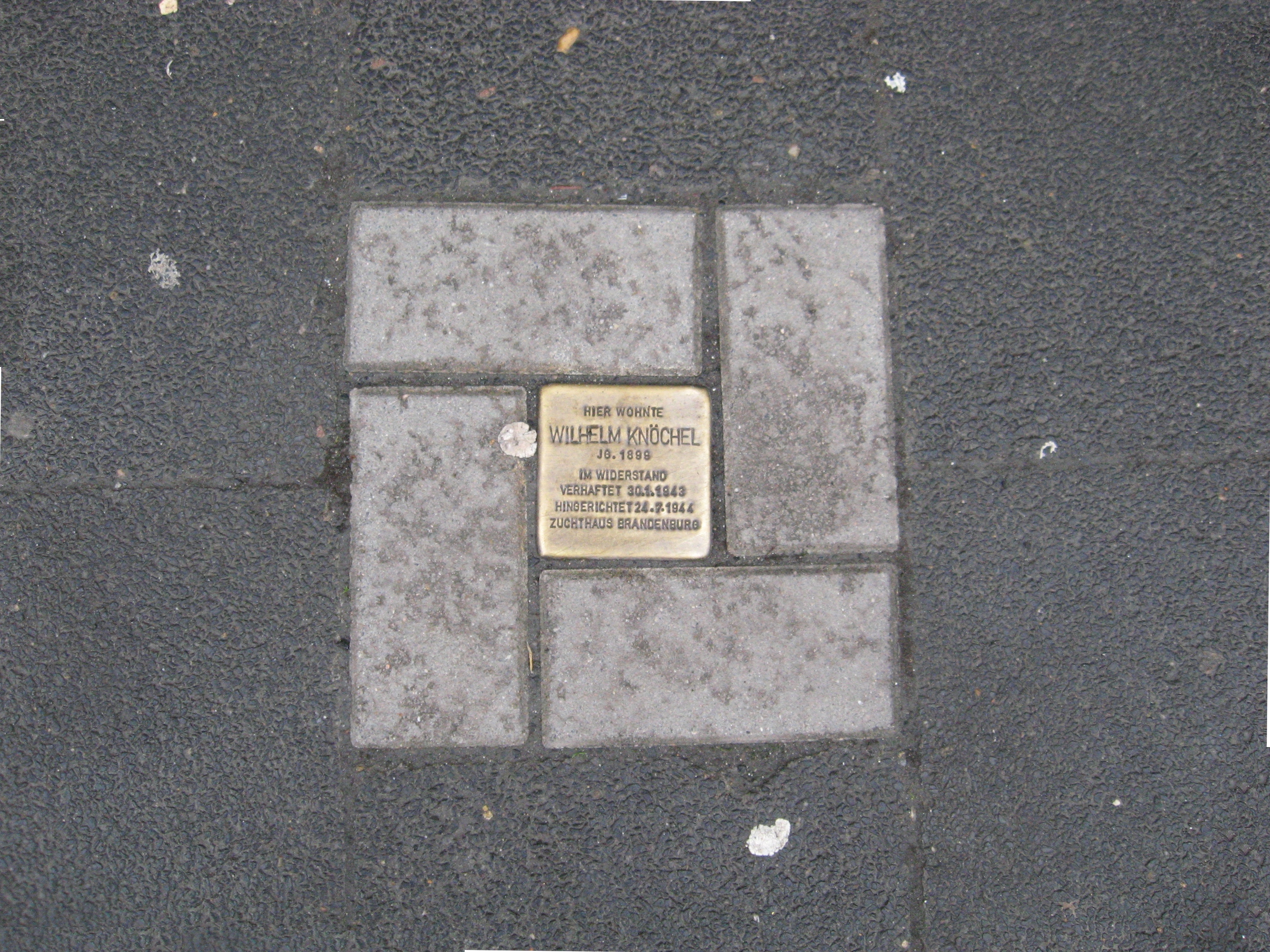 A Stolperstein (literally, "stumbling block" – a small, cobblestone-sized memorial for a victim of Nazism) for Wilhelm Knöchel at Wilhelmstraße 26, 63065 Offenbach am Main, Hesse, Germany.